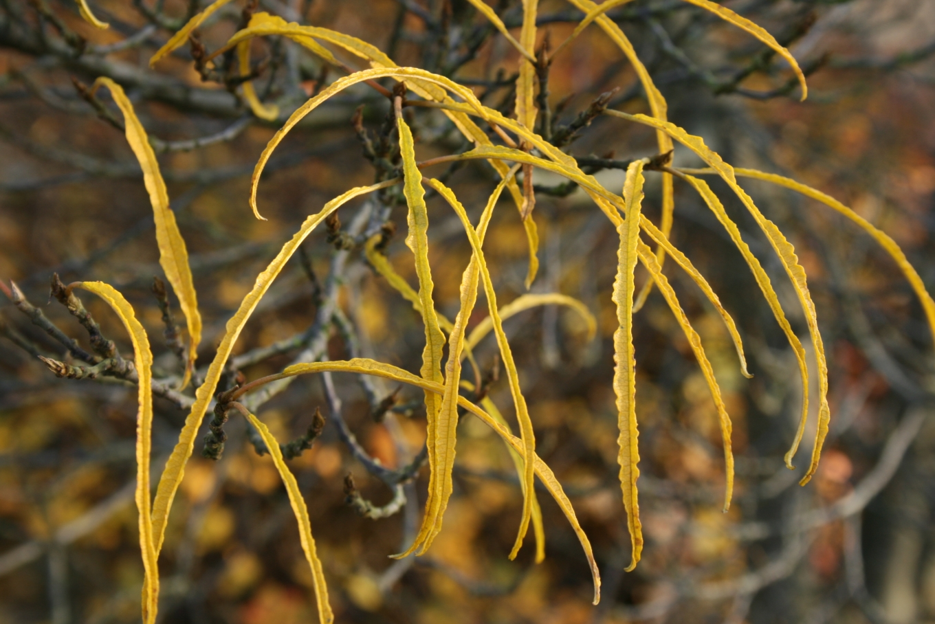 Autumn-coloured foliage of Frangula alnus cultivar 'Asplenifolia'